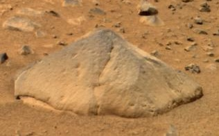 Adirondack Rock on Mars, imaged by Mars rover Spirit Credit: NASA/JPL